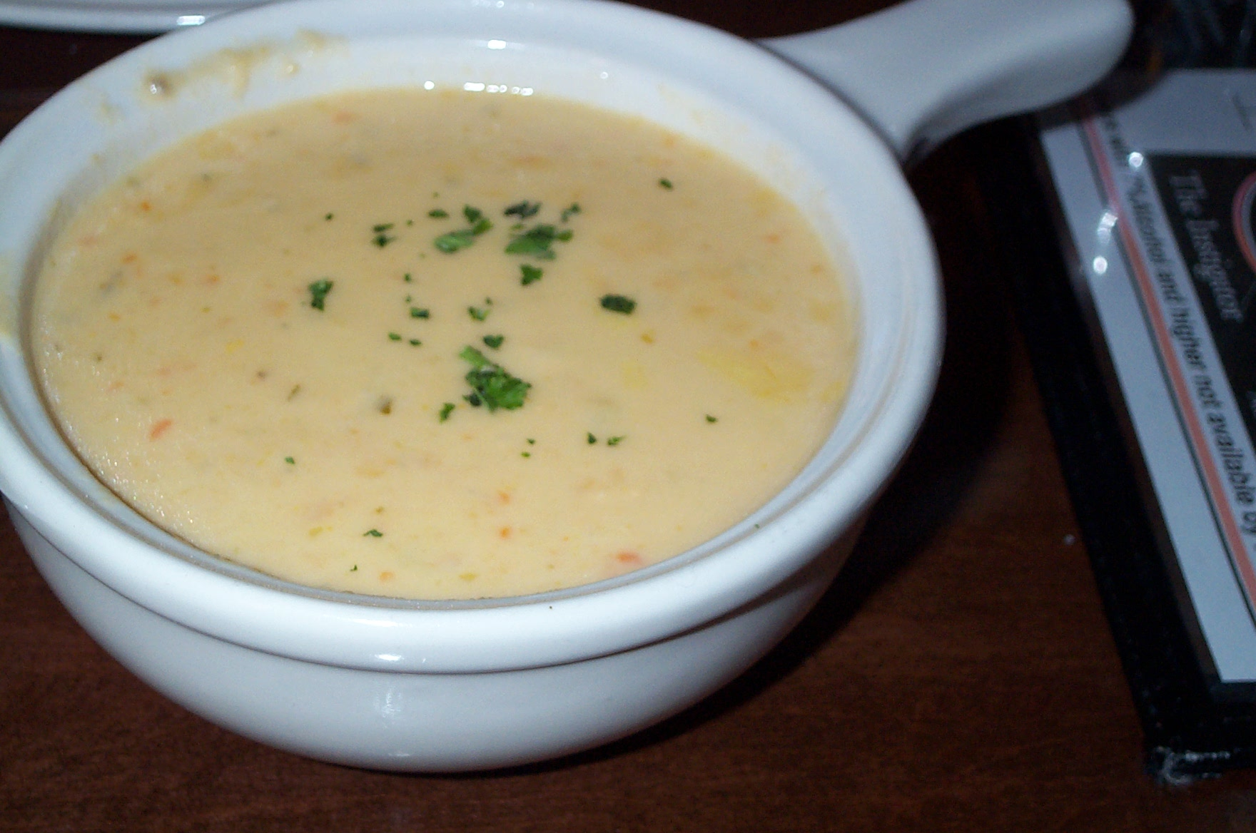 Stilton and cheddar